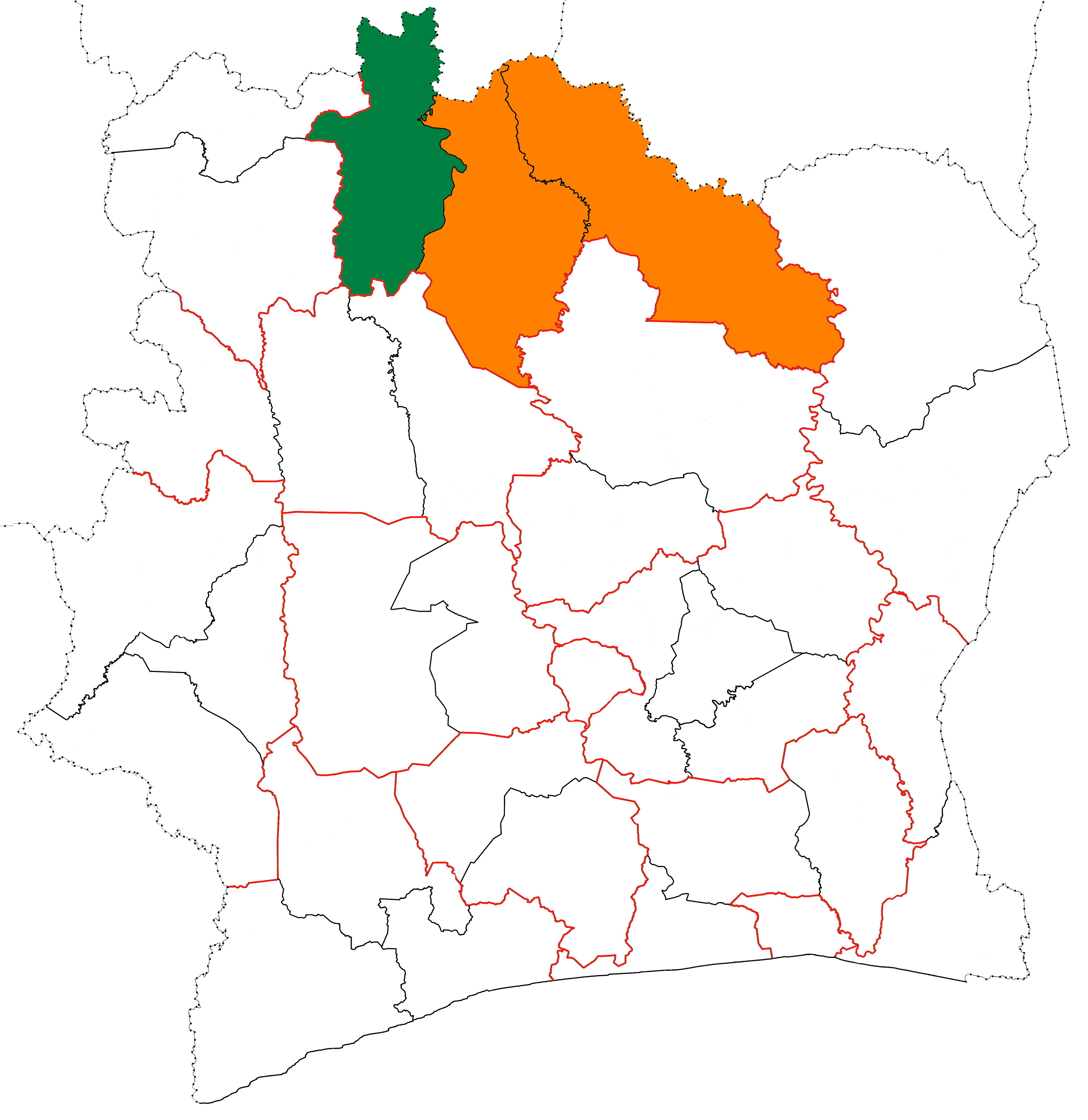 The location of Bagoué region (green) in Côte d'Ivoire. The other shaded areas represent the other parts of Savanes District.